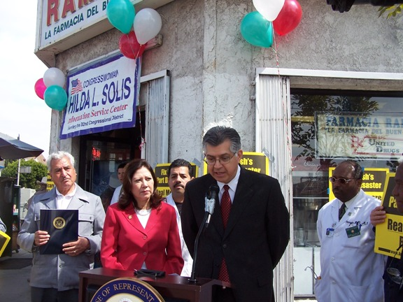 Congresswoman Hilda Solis and Local Pharmacists Call for an Extension of the Enrollment Period for Medicare Rx Plan: Solis and local phramacists, including Michael Ramirez of Ramirez Pharmacy (center), speak out on the need to extend the enrollment period for the confusing Medicare Part D prescription drug plan to ensure that seniors are able to choose plans that will work well for them.